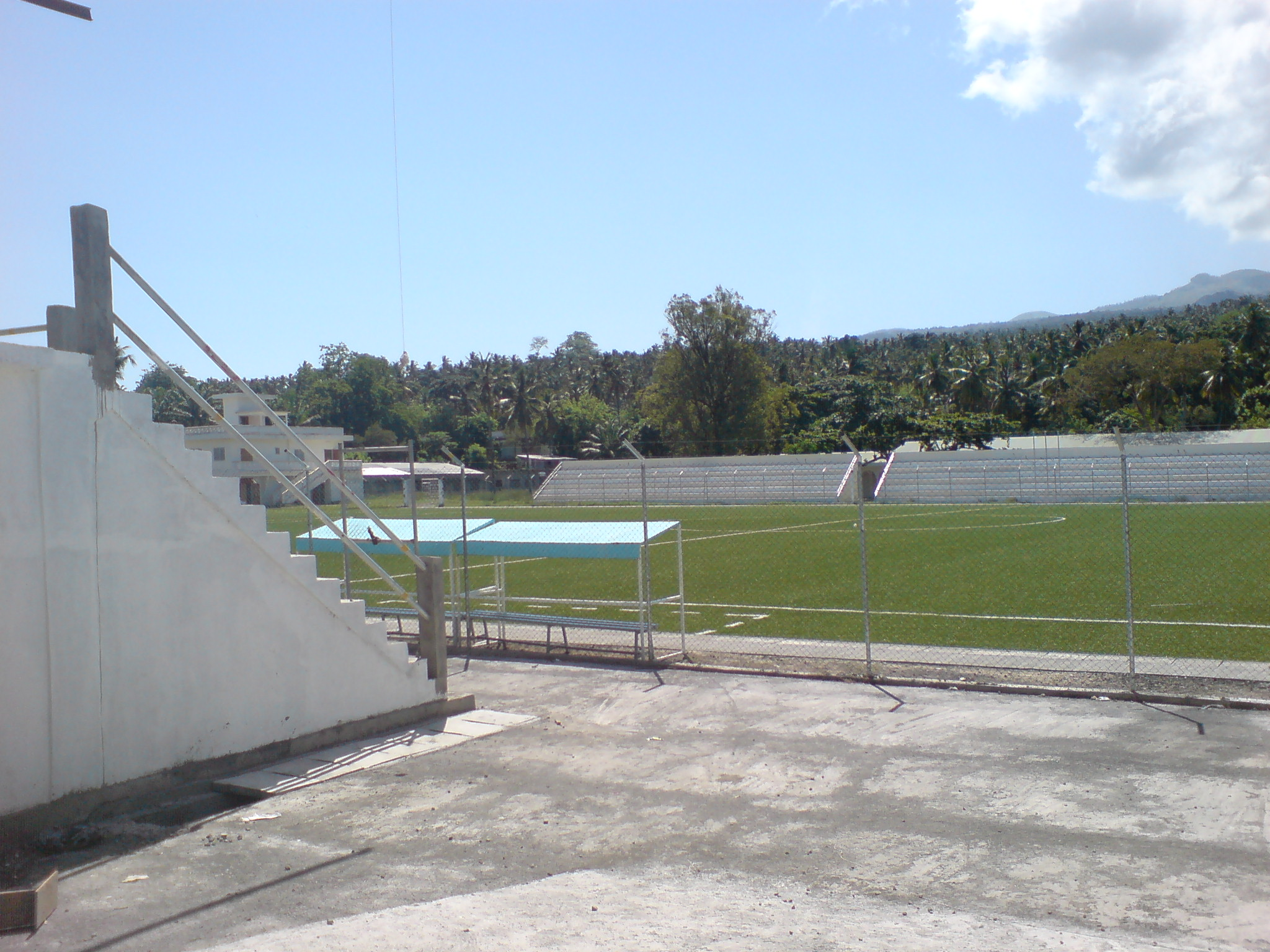 International Soccer Stadion of the Komoros-Islands, Grande Comore, Mitsamiouli Comoros -11.392528, 43.288499